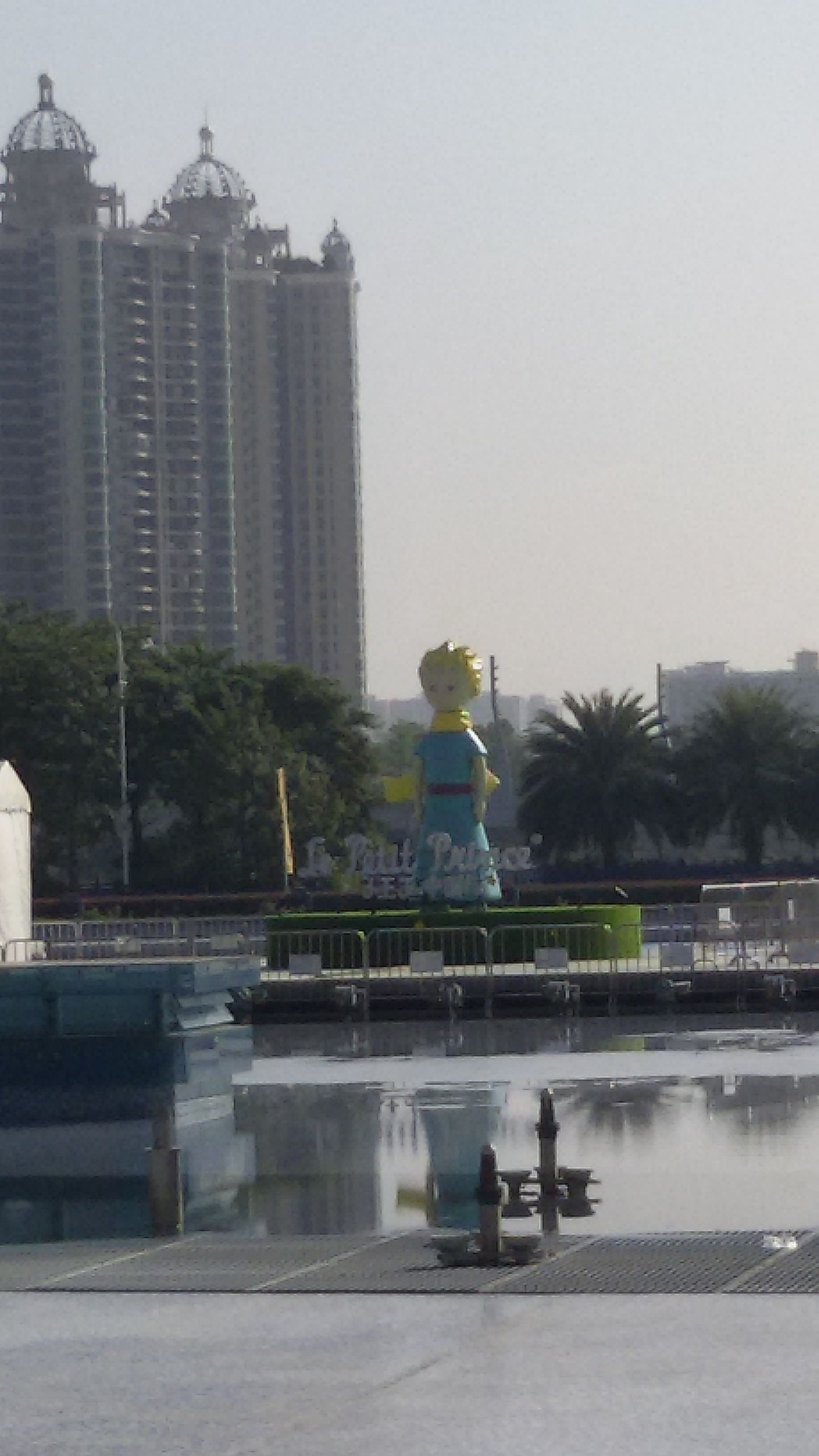 The Little Prince - China Tour had taken place in Canton from October 28th. 2015 to November 30th. 2015.